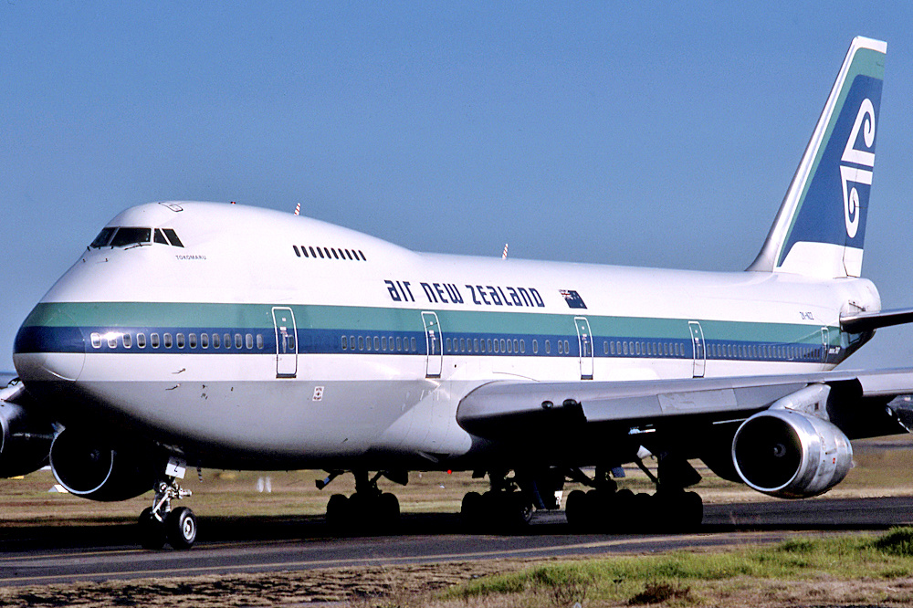 Air New Zealand Boeing 747-200 at Sydney Airport